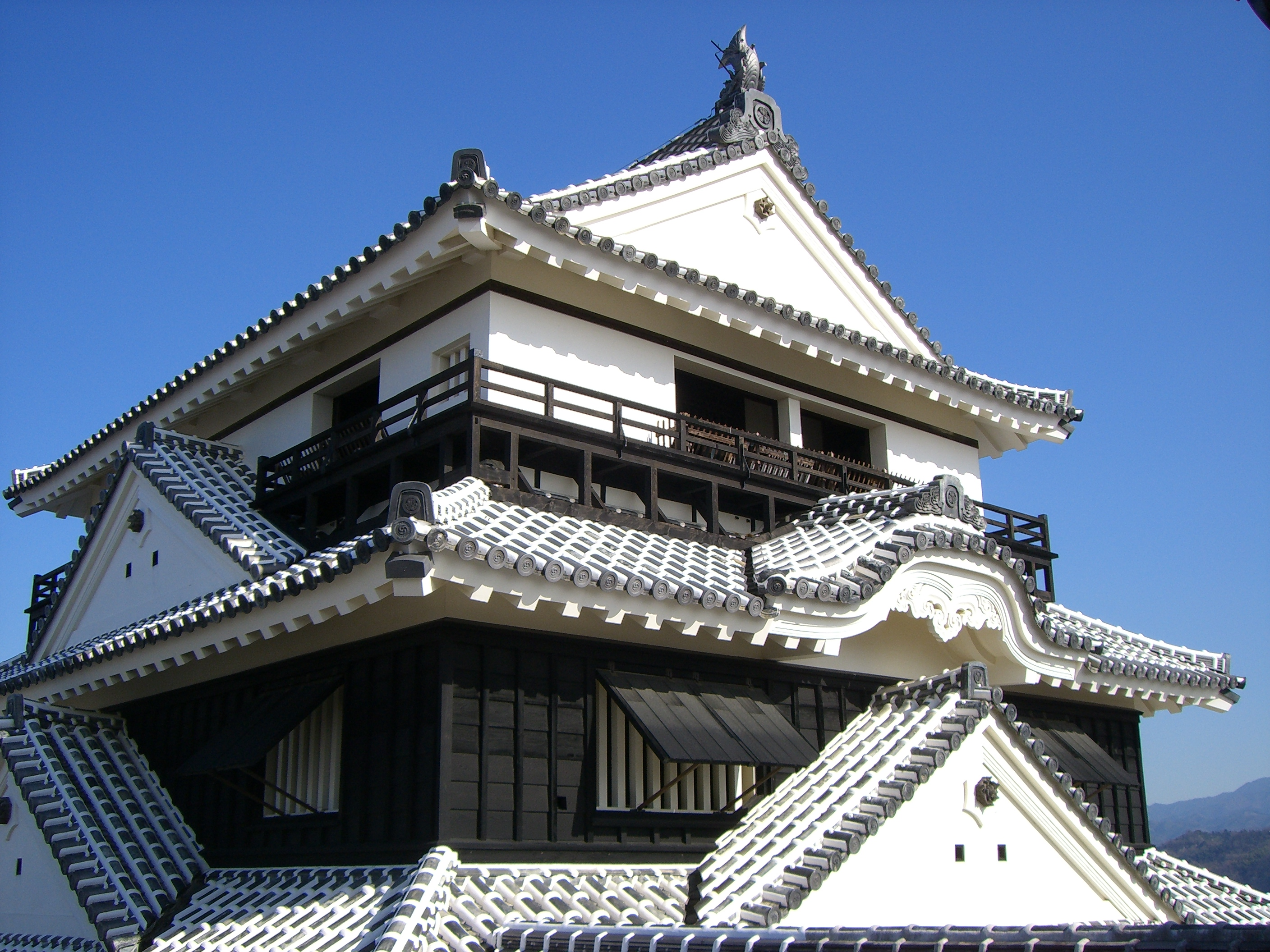 Iyo Matsuyama-jo Castle is one of 12 castle towers existing in Japan. 12 castle towers are castles stored to date from the Edo era of about 1600. The castle tower is appointed to Japanese important cultural property.